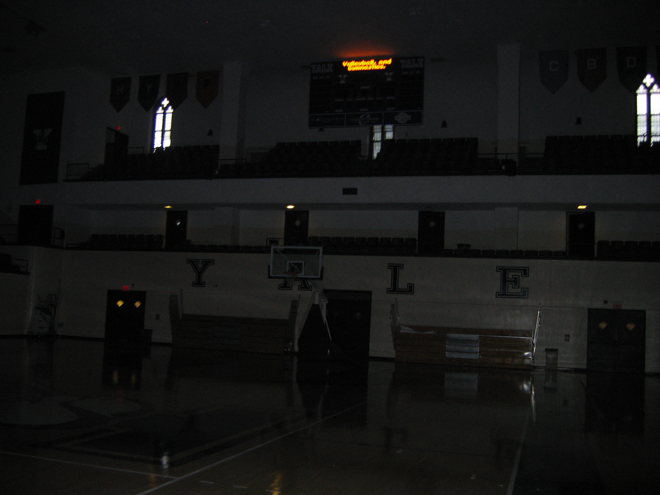 Football & Basketball Facilities Yale Basketball Gym